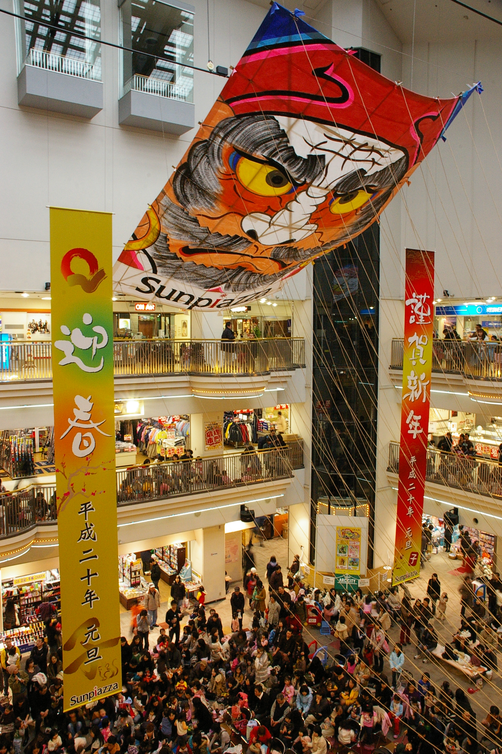 The large kite of New Year decoration. (January 1, 2003)